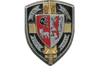 Regimental badge of the 88nd Infantry Regiment (France).